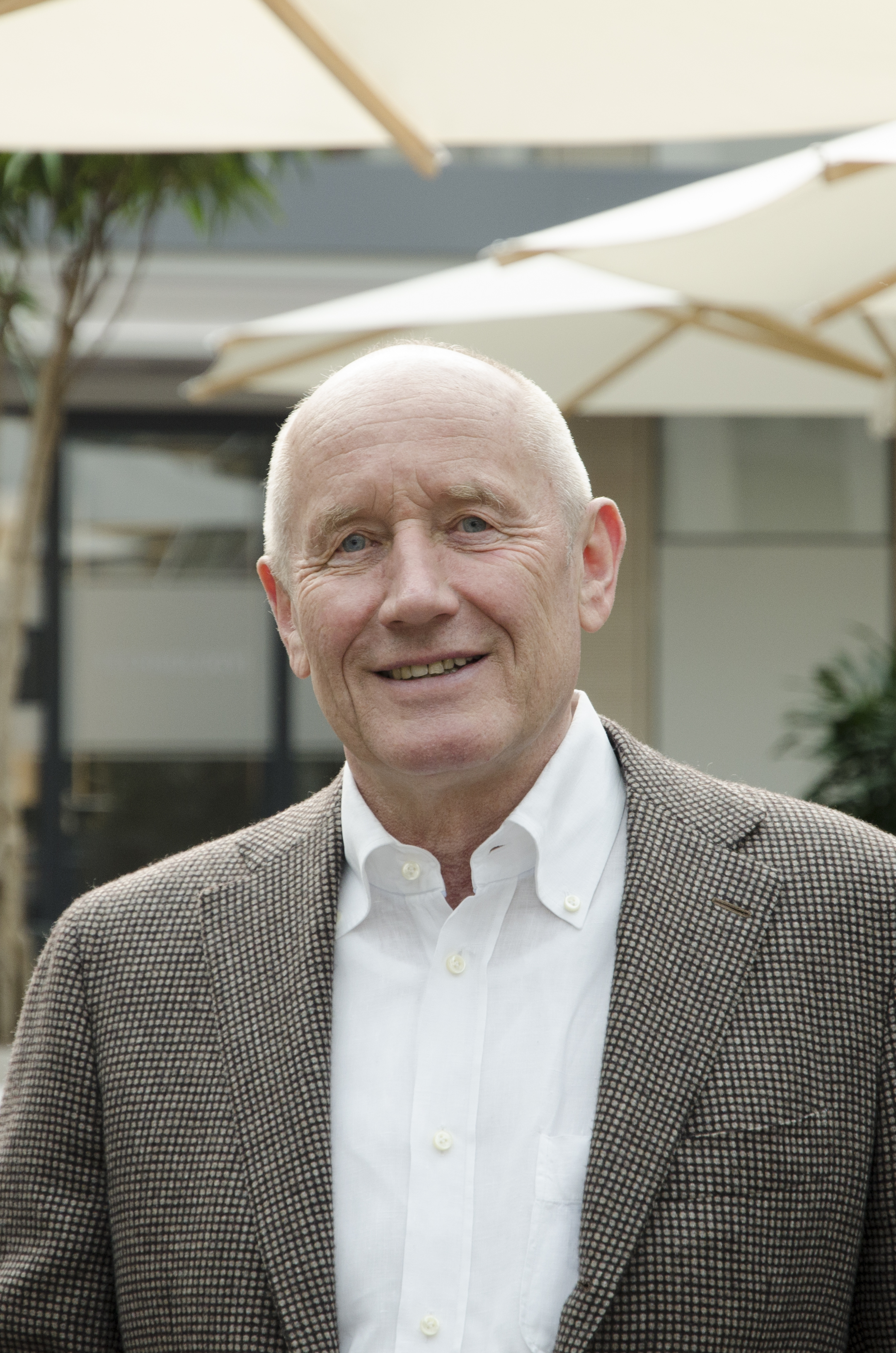 ROSEN Group President Hermann Rosen